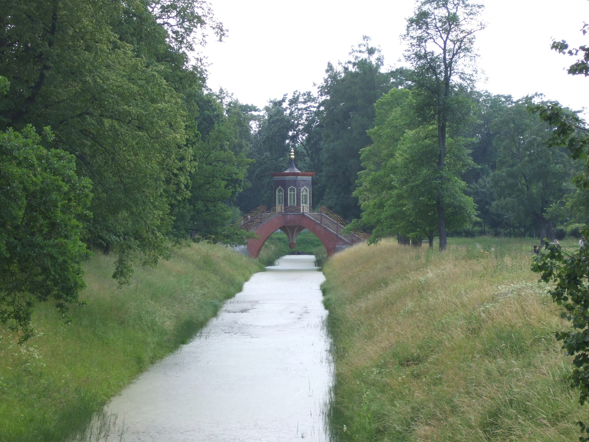 Tripartite bridge in Alexander Park, Tsarskoye Selo